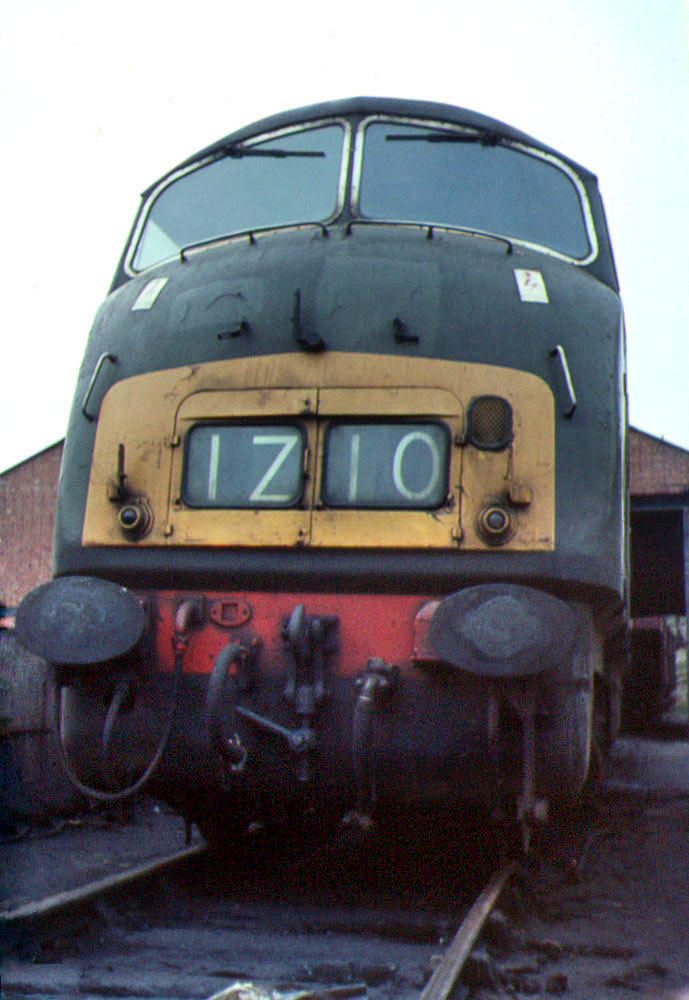 Later class 42.